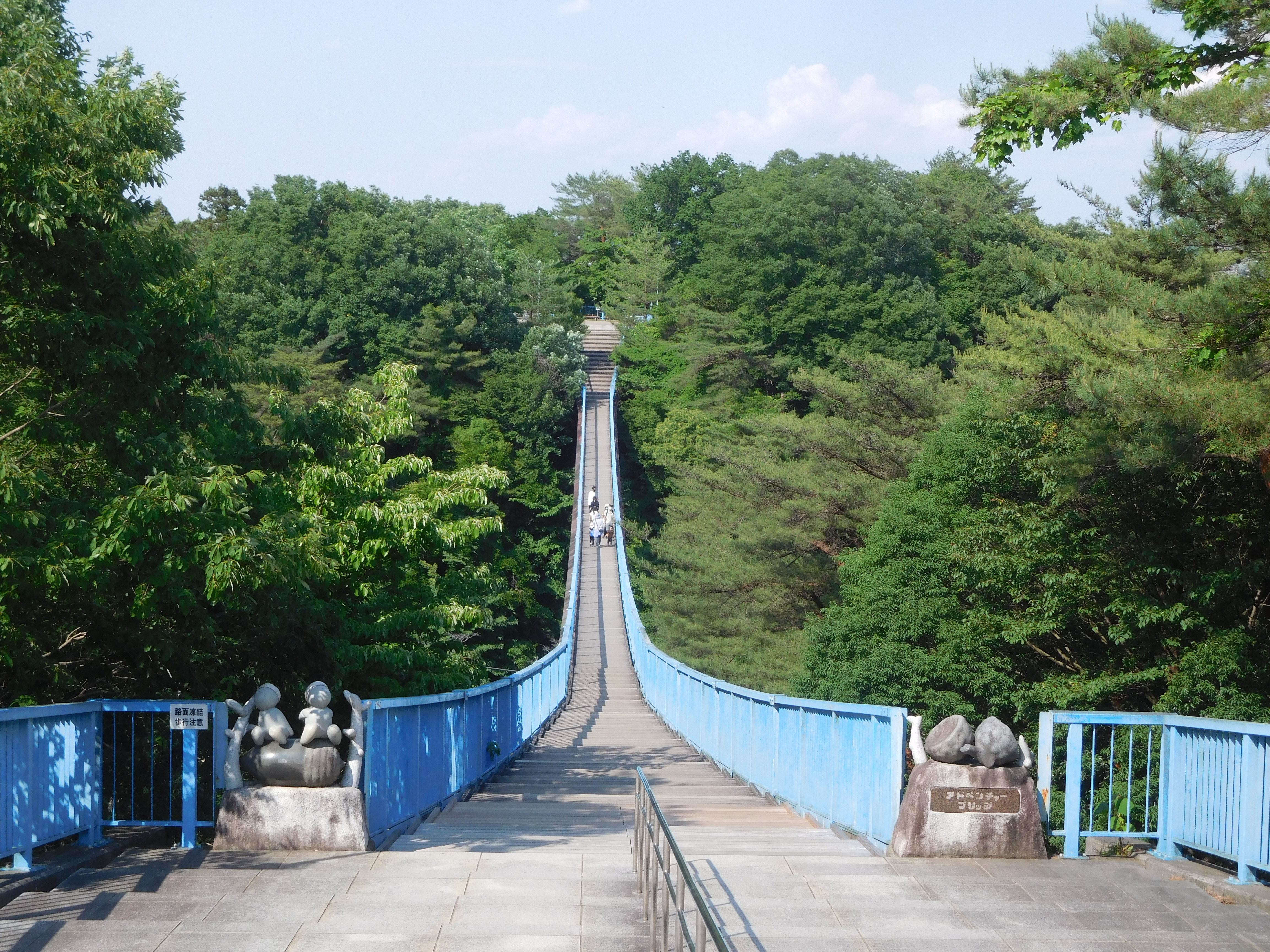 This is the Adventure Bridge in Hachimanyama Park, Utsunomiya, Japan.